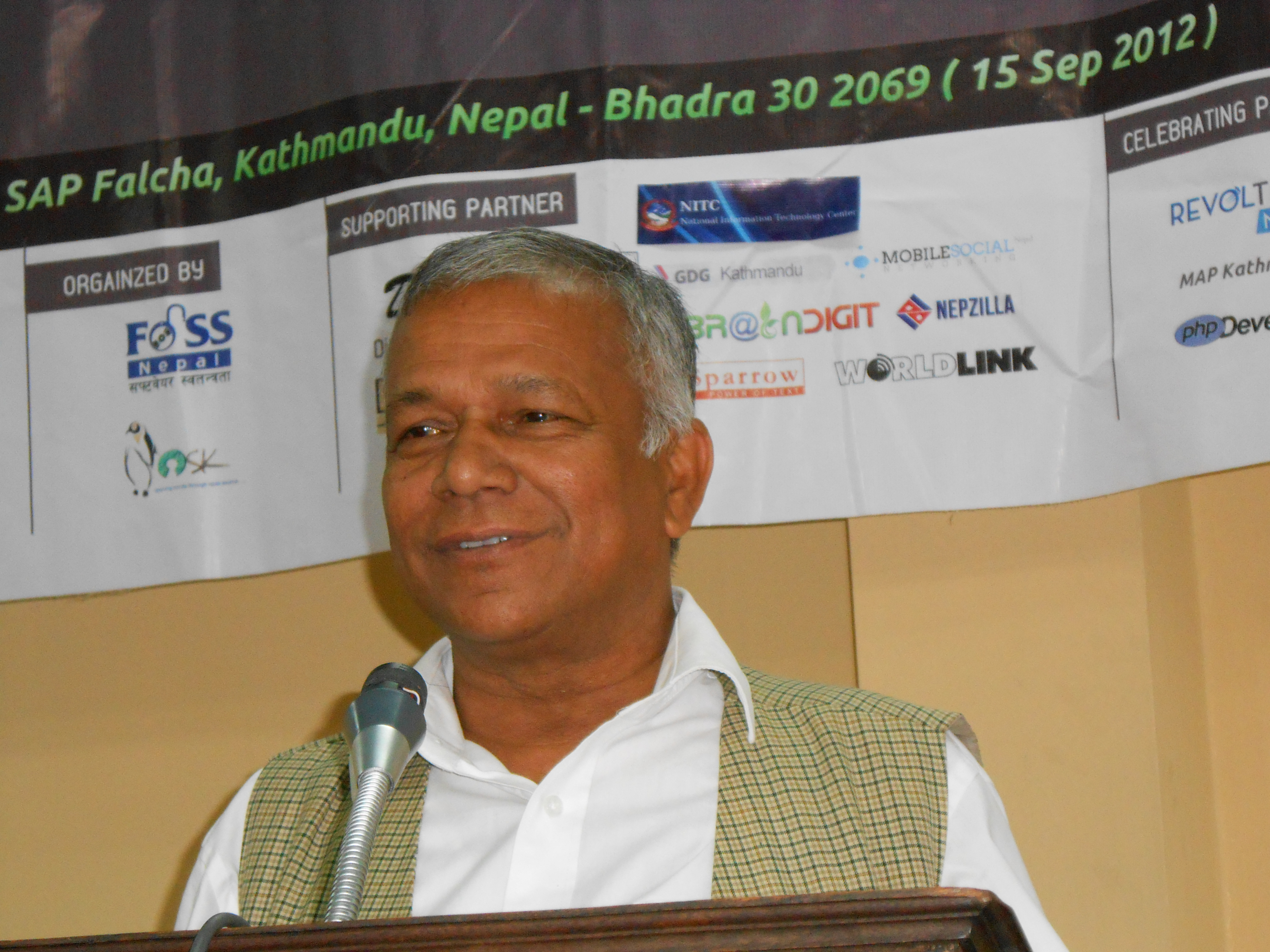 Former Science & Technology Minister of Nepal Ganesh Shah in Software Freedom Day 2012.